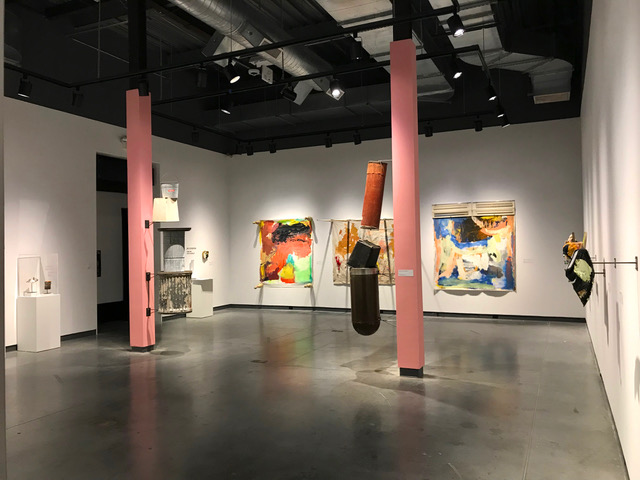 Installation view of contemporary art exhibition featuring painting and sculpture